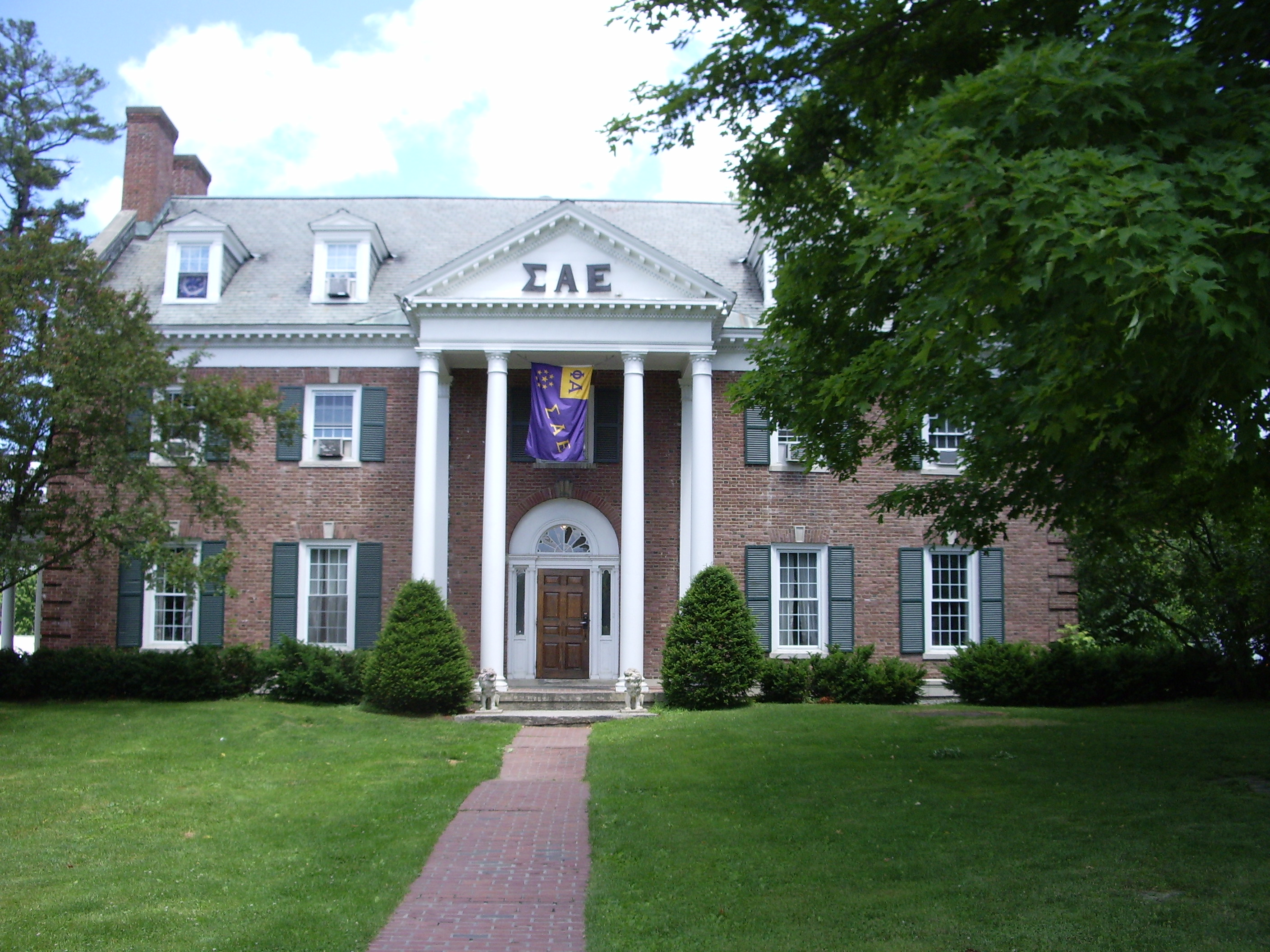 Photograph of Sigma Alpha Epsilon at the campus of Dartmouth College in Hanover, New Hampshire.